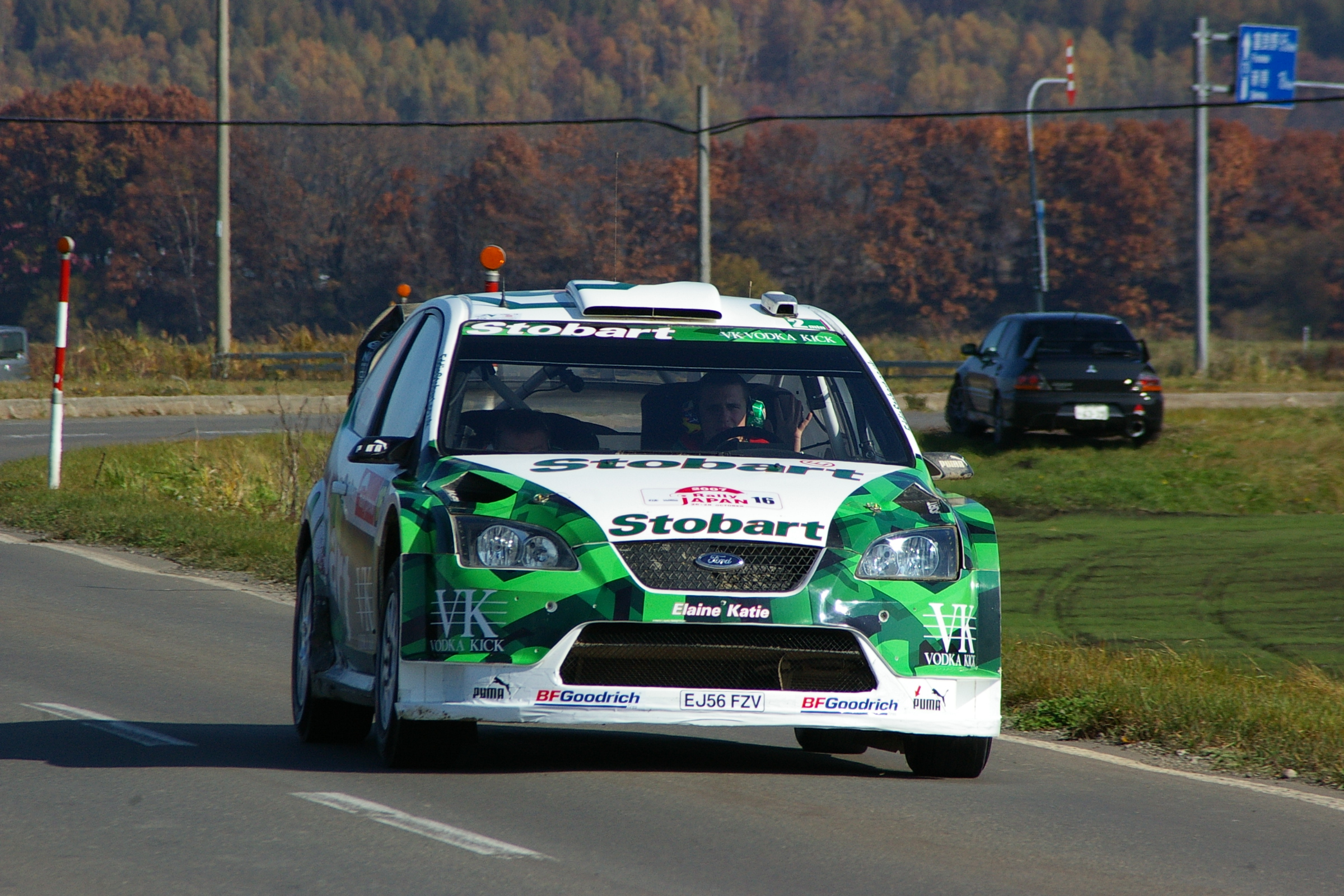 Matthew WILSON on FORD Focus RS WRC06, Rally Japan 2007.